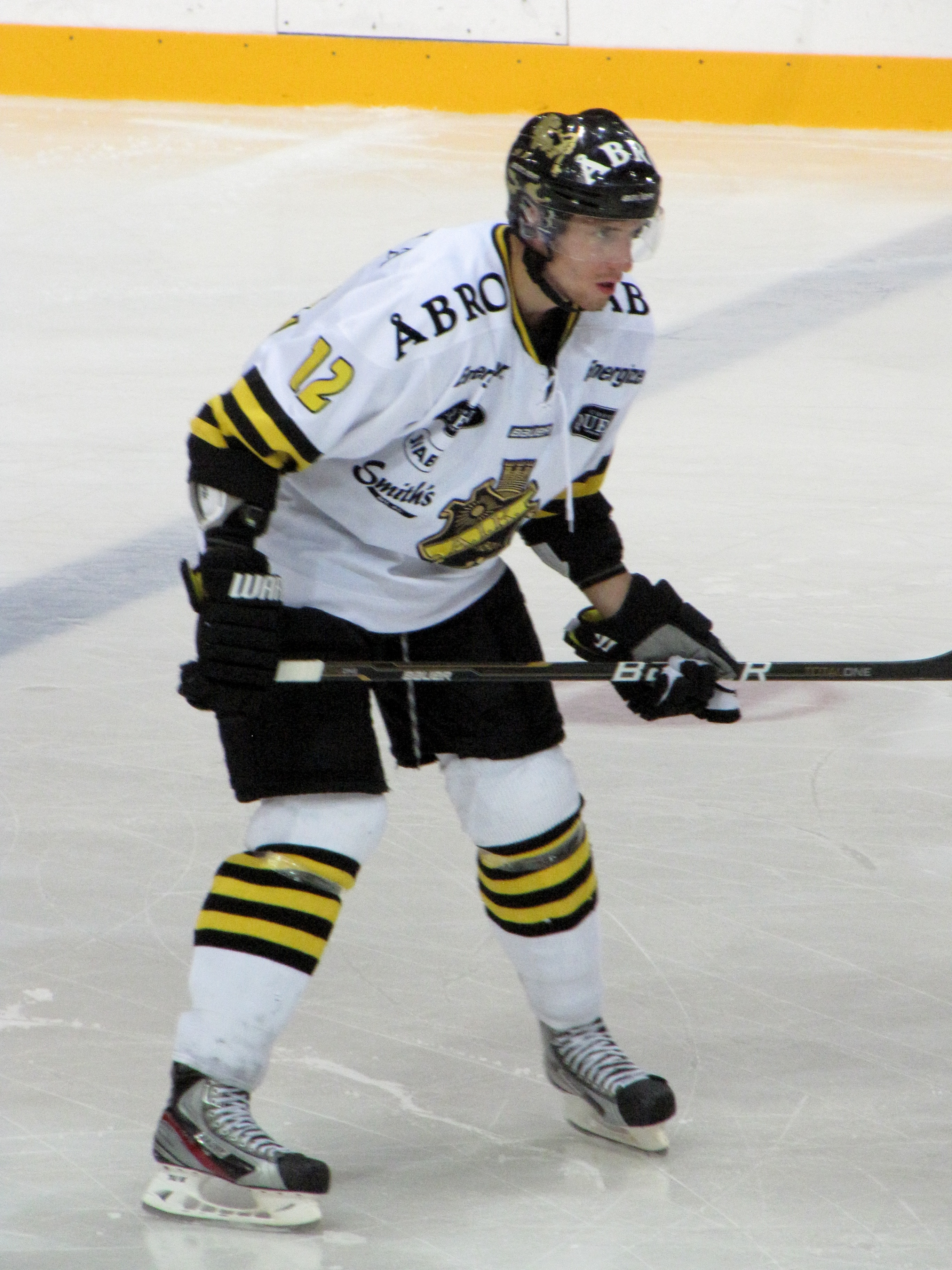 Swedish ice hockey defenceman Patrik Nemeth in a pre-season game between his Stockholm AIK and Tampere Ilves of Finland in August, 2011.